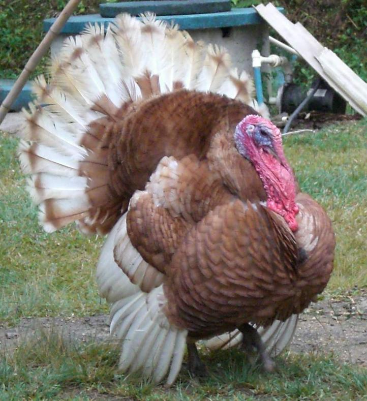 Male turkey doing it's mating ritual.